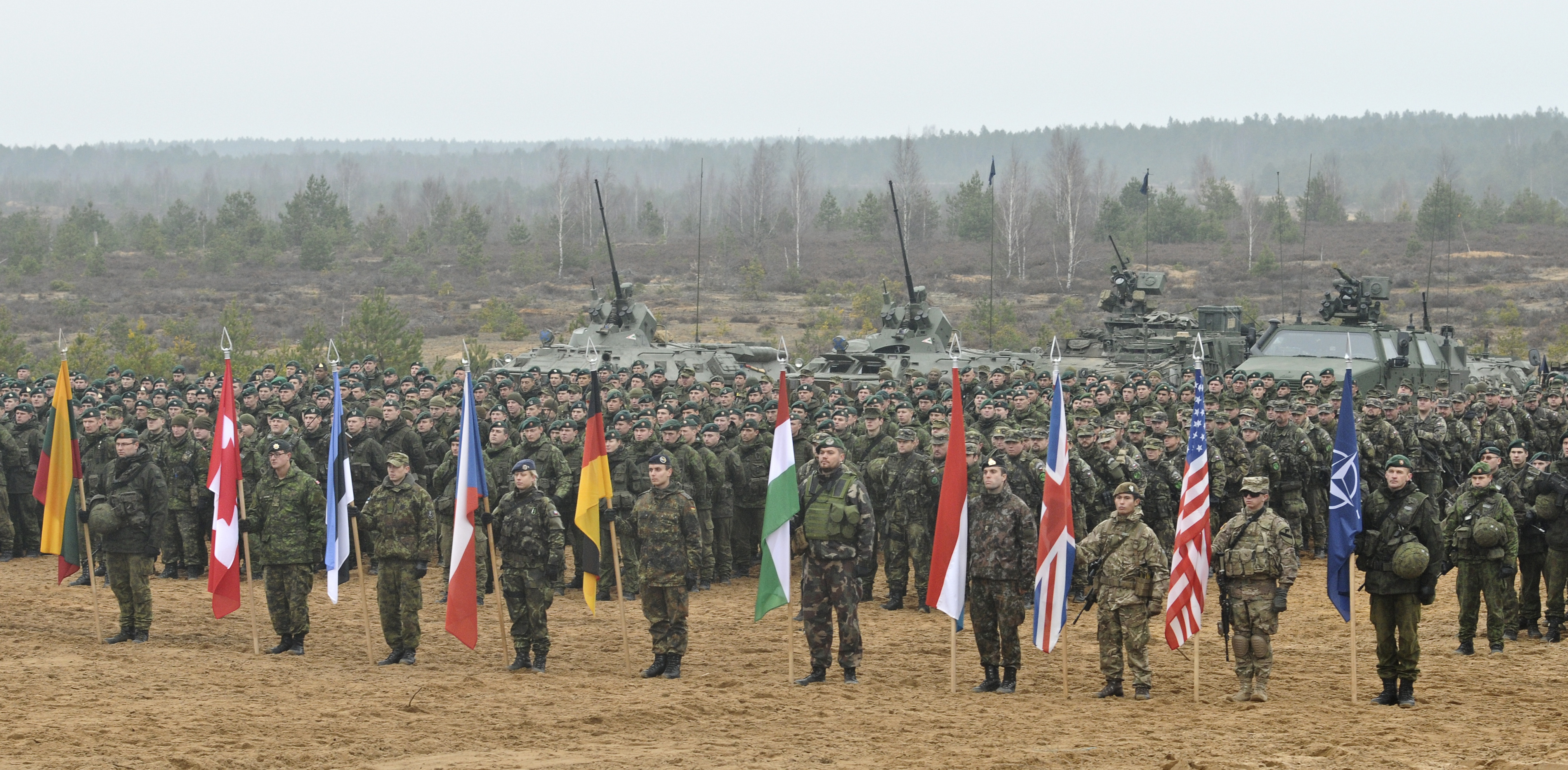 Soldiers from nine NATO member countries take part in the closing ceremony for the multinational exercise Iron Sword 2014 in Pabrade, Lithuania, Nov. 13, 2014. Lithuania served as host for the exercise, which will also certify its forces to serve as part of the NATO Response Force over the next two years. Iron Sword 2014 involved more than 2,500 personnel from the U.S., Lithuania, Canada, Estonia, the Czech Republic, Germany, Hungary, Luxembourg and U.K. It also takes place as part of the U.S. Army Europe-led Atlantic Resolve, a multinational, combined-arms exercise involving the 1st Brigade Combat Team, 1st Cavalry Division, and host nations across Estonia, Latvia, Lithuania and Poland aimed at enhancing interoperability, strengthening relationships among allied militaries, contributing to regional stability and demonstrating U.S. commitment to NATO. (U.S. Army photo by Sgt. David Turner)